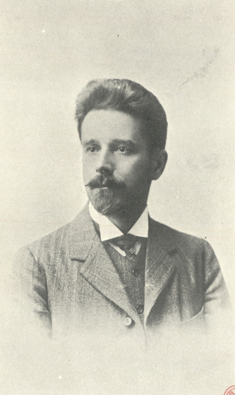 Photograph of Portuguese Republican politician Ricardo Pais Gomes, included in the Album Republicano, published in 1908.